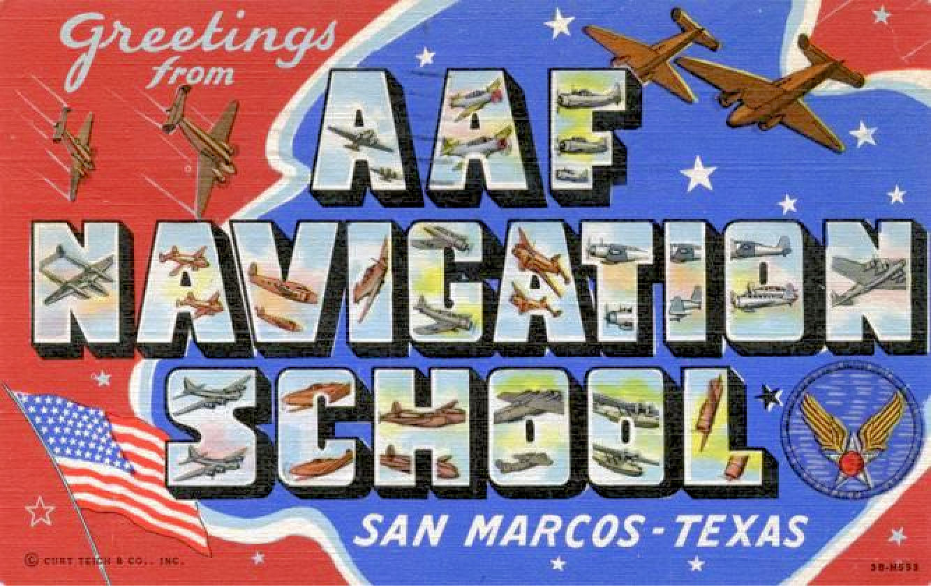 Army Air Forces - Postcard - San Marcos Texas